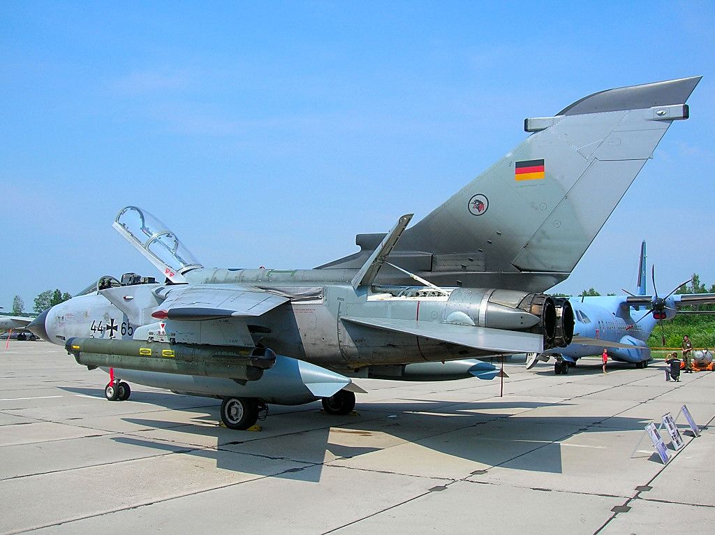 A German Air Force Panavia Tornado RECCE (s/n 44+65) during the "Kilkime" airshow at Kaunas, Lithuania, on 16 June 2007. The Tornado was assigned to Aufklärungsgeschwader 51 "Immelmann" (51st Reconnaissance Wing) based at Schleswig-Jagel air base, Schleswig-Holstein (Germany).